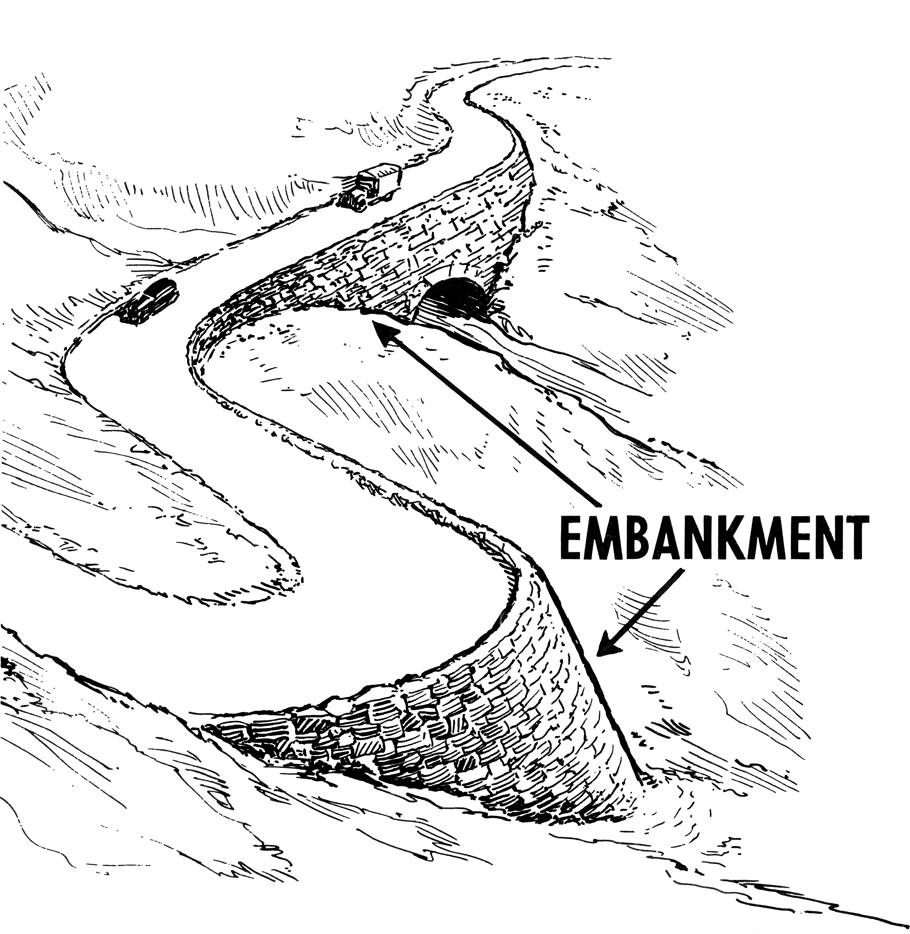 Line art drawing of a Embankment